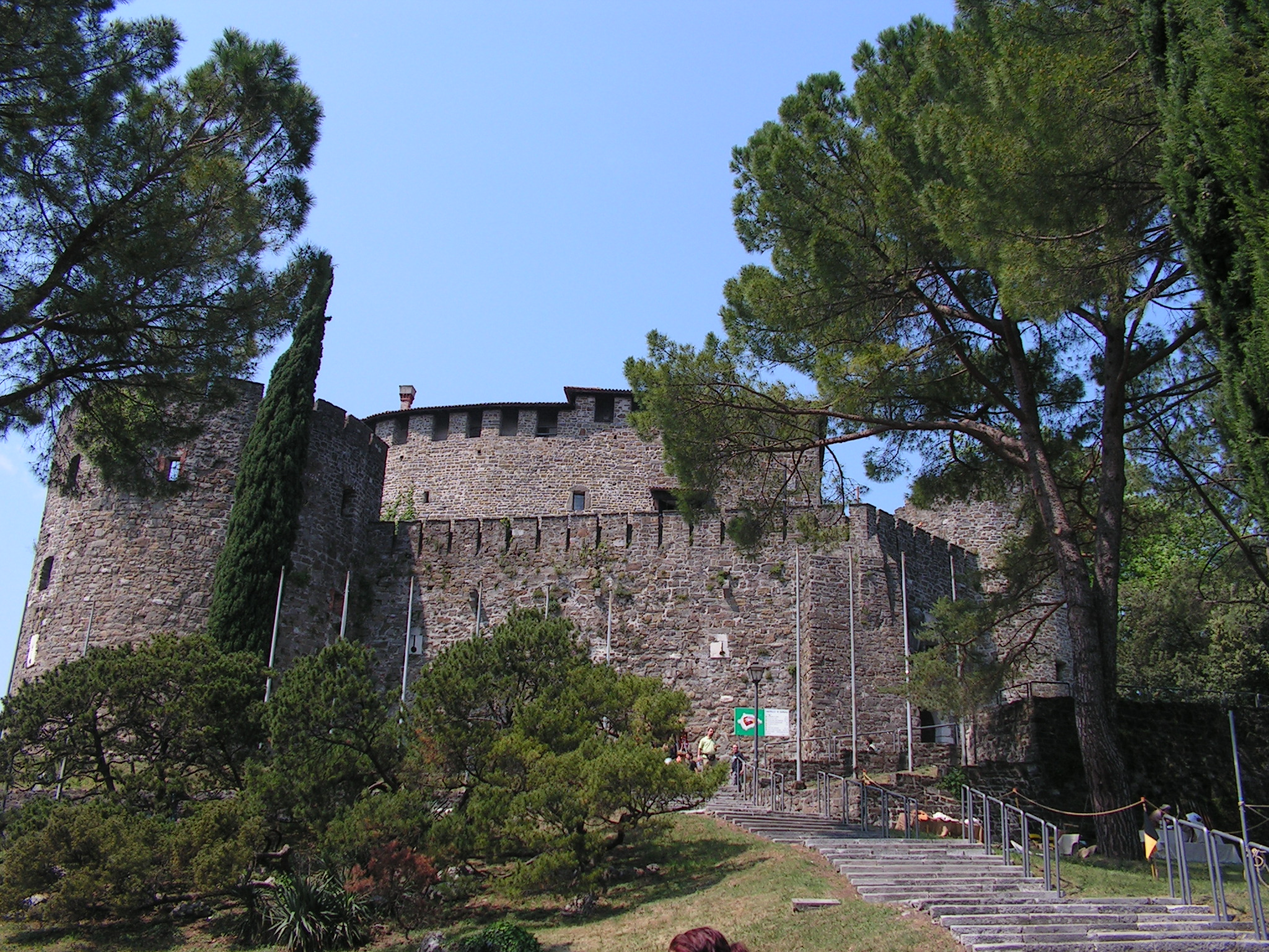 The castle of Gorizia (Italy)